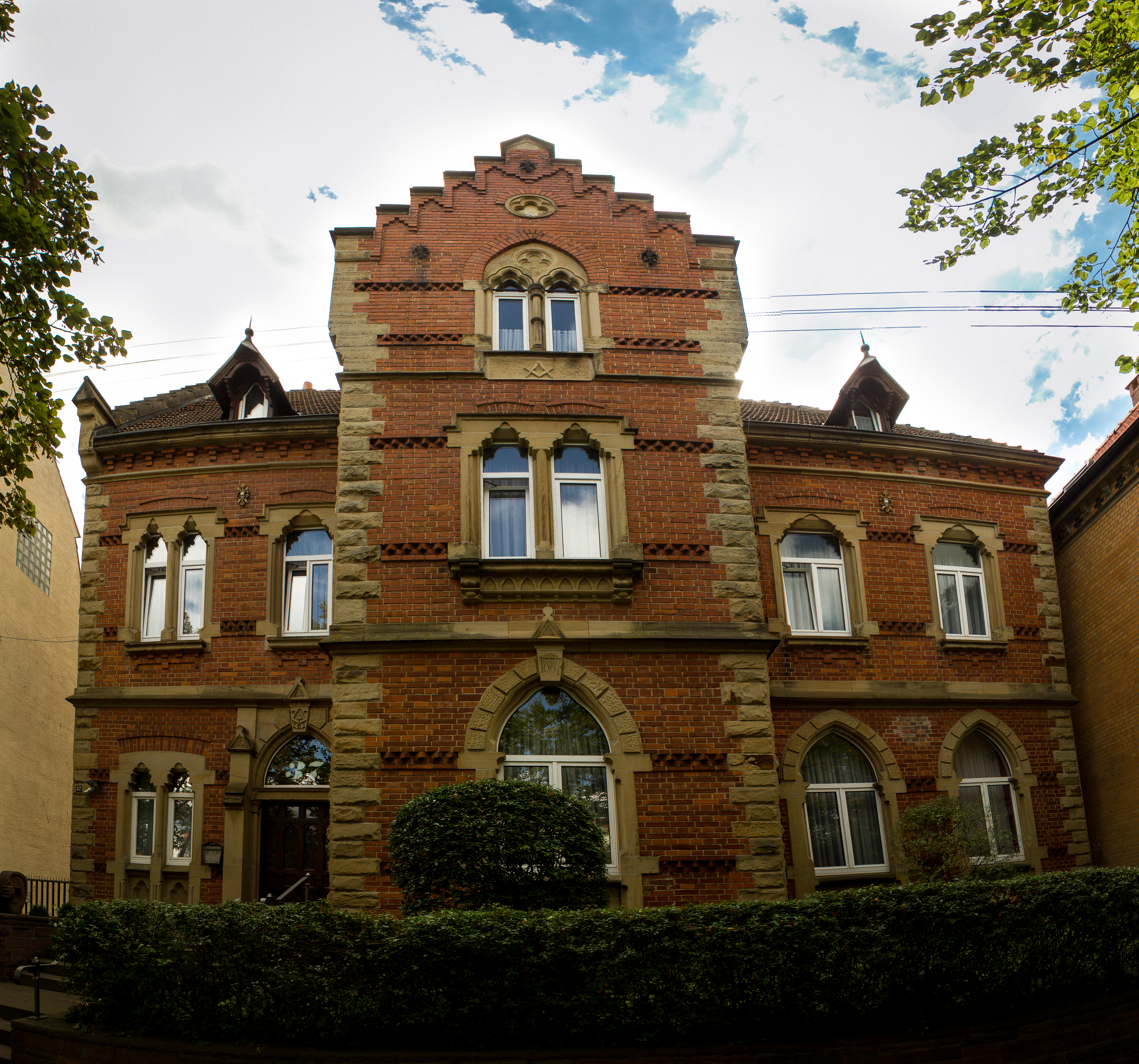 House at Asperger Strasse 37 in Ludwigsburg, a former meeting place of the Freemasons.